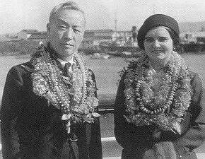 Syngman Rhee, first president of South Korea, and his wife, Franziska Donner, in 1933.